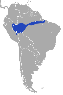 Emilia's Short-tailed Opossum (Monodelphis emiliae) range